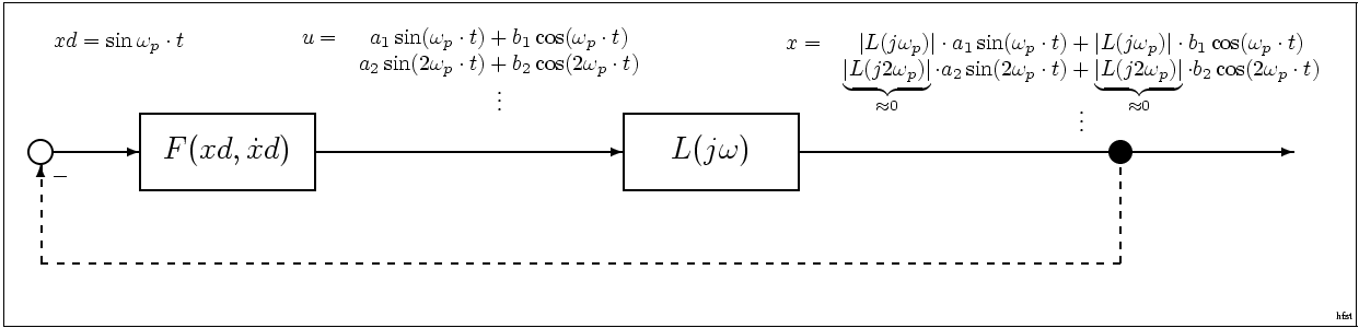 This picture shows the block diagram of a nonlinear system in the state of Harmonic Balance. See Describing function for more details.